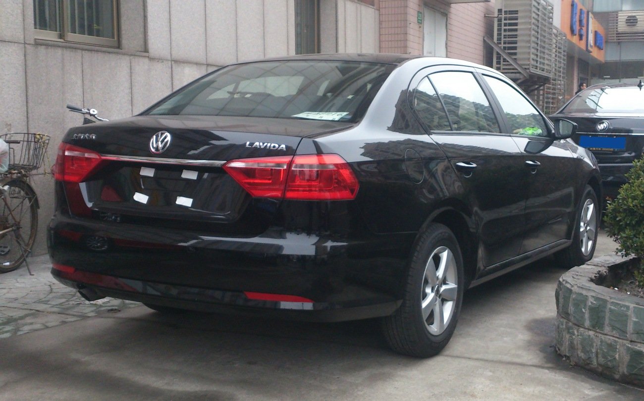 Volkswagen Lavida II photographed in Shanghai, China.